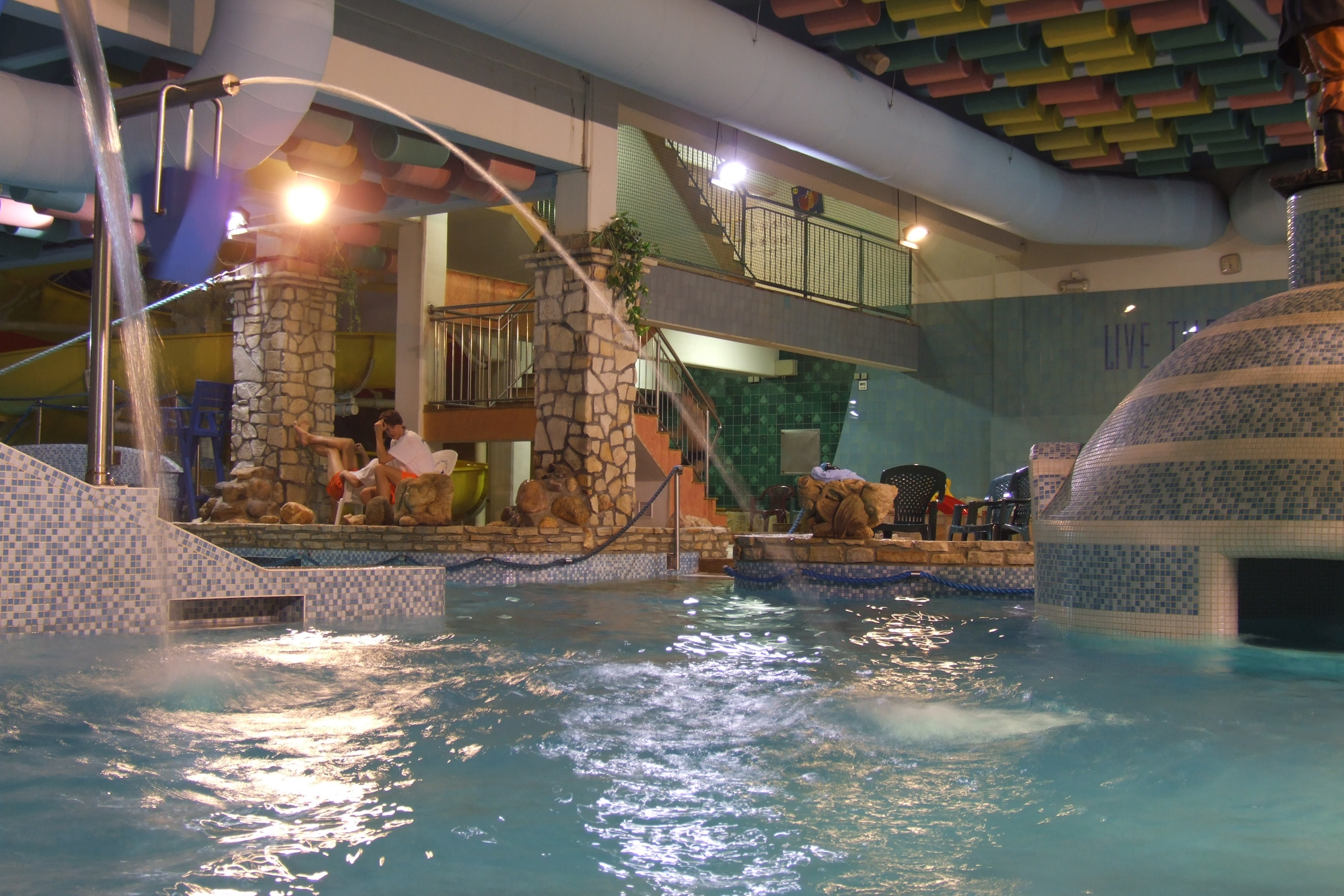 Aquapark Liberec